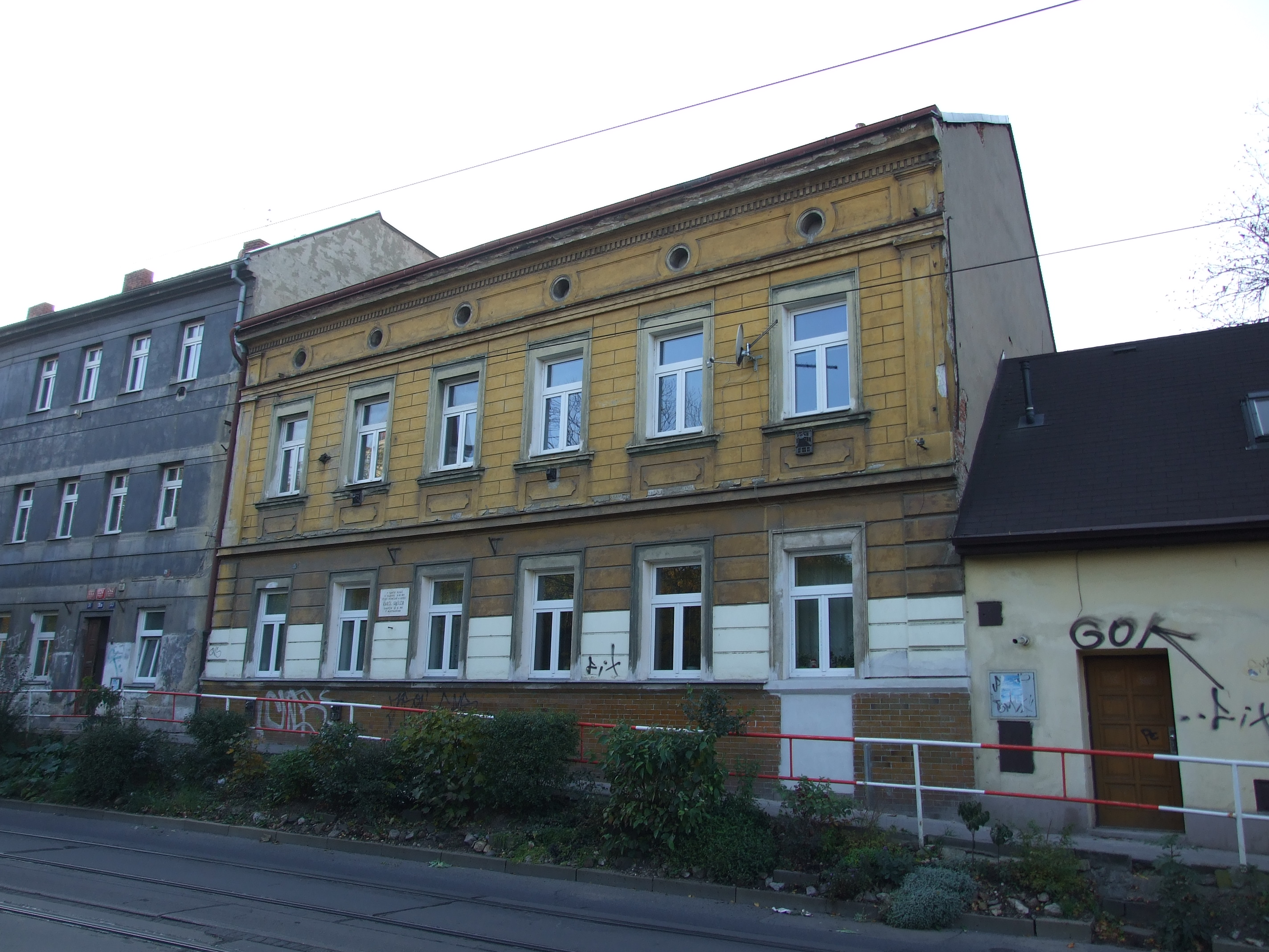 Zlíchov, part of Prague